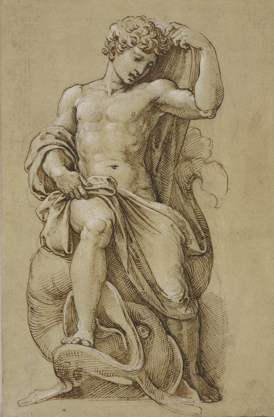 The prophet Jonah, drawing in the Royal Collection (c. 1520-23). A version of Raphael's design for the statue in the Chigi Chapel, Santa Maria del Popolo, which was executed by Lorenzetto.